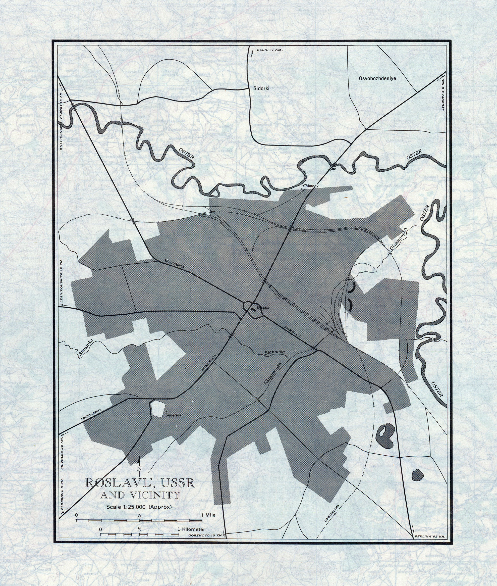 List from Eastern Europe AMS Topographic Maps. Series N501, U.S. Army Map Service, 1954